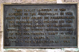 Plaque posted on the Little Egg Harbor Massacre Monument in Mystic Islands, NJ